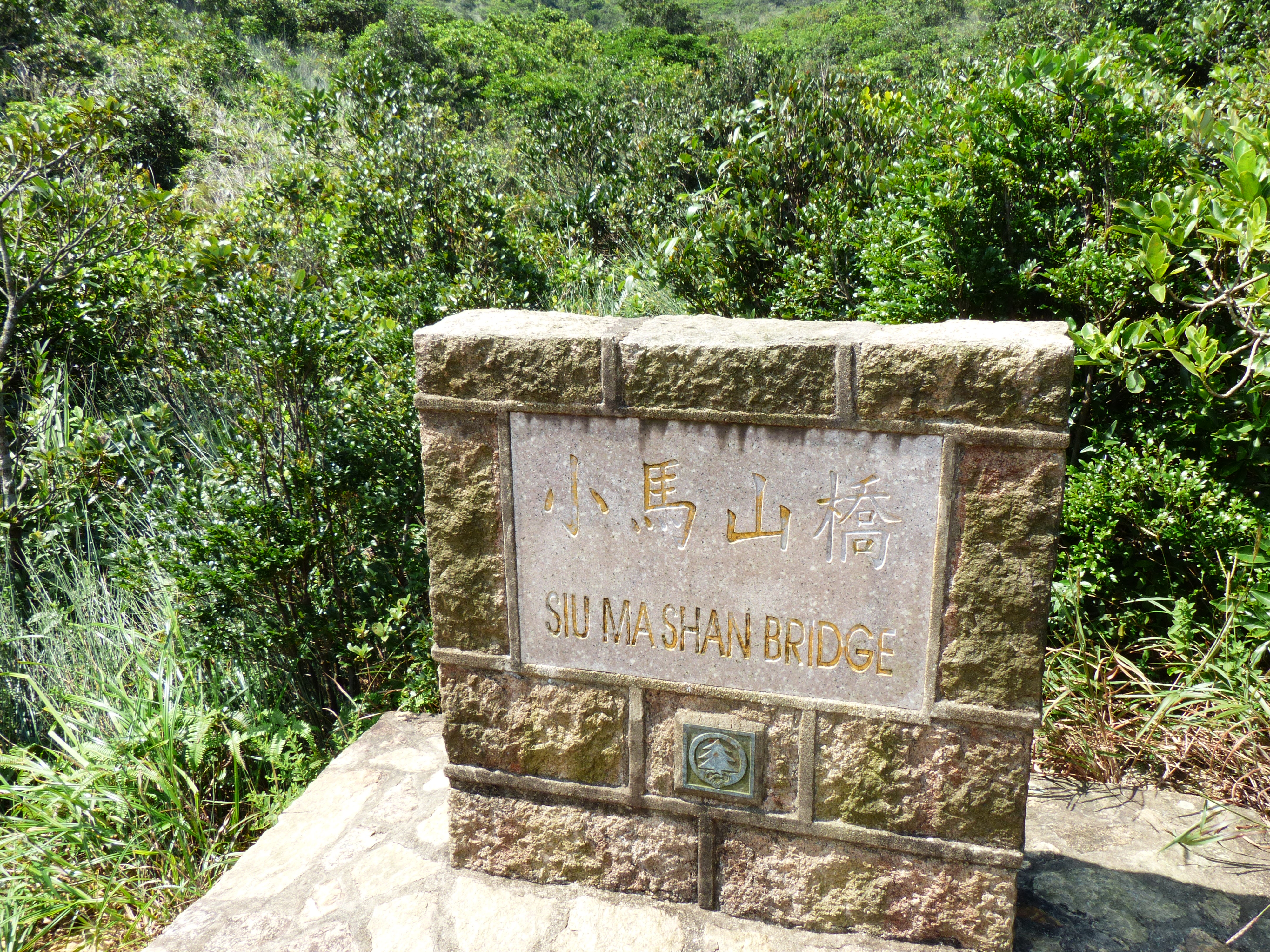 The bridge at the bottom of Siu Ma Shan